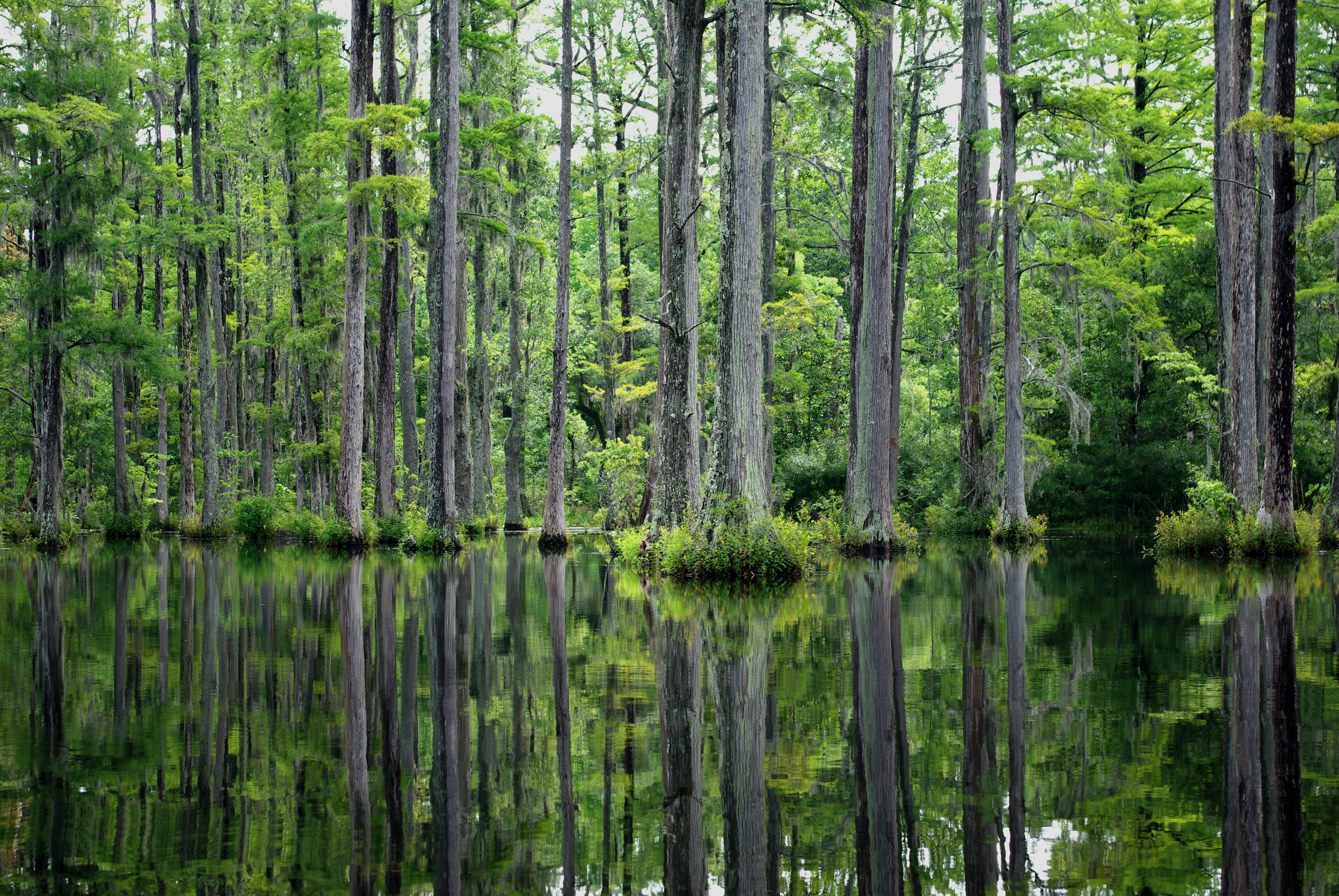 Canoe Trail at Cypress Gardens, Moncks Corner in South Carolina.